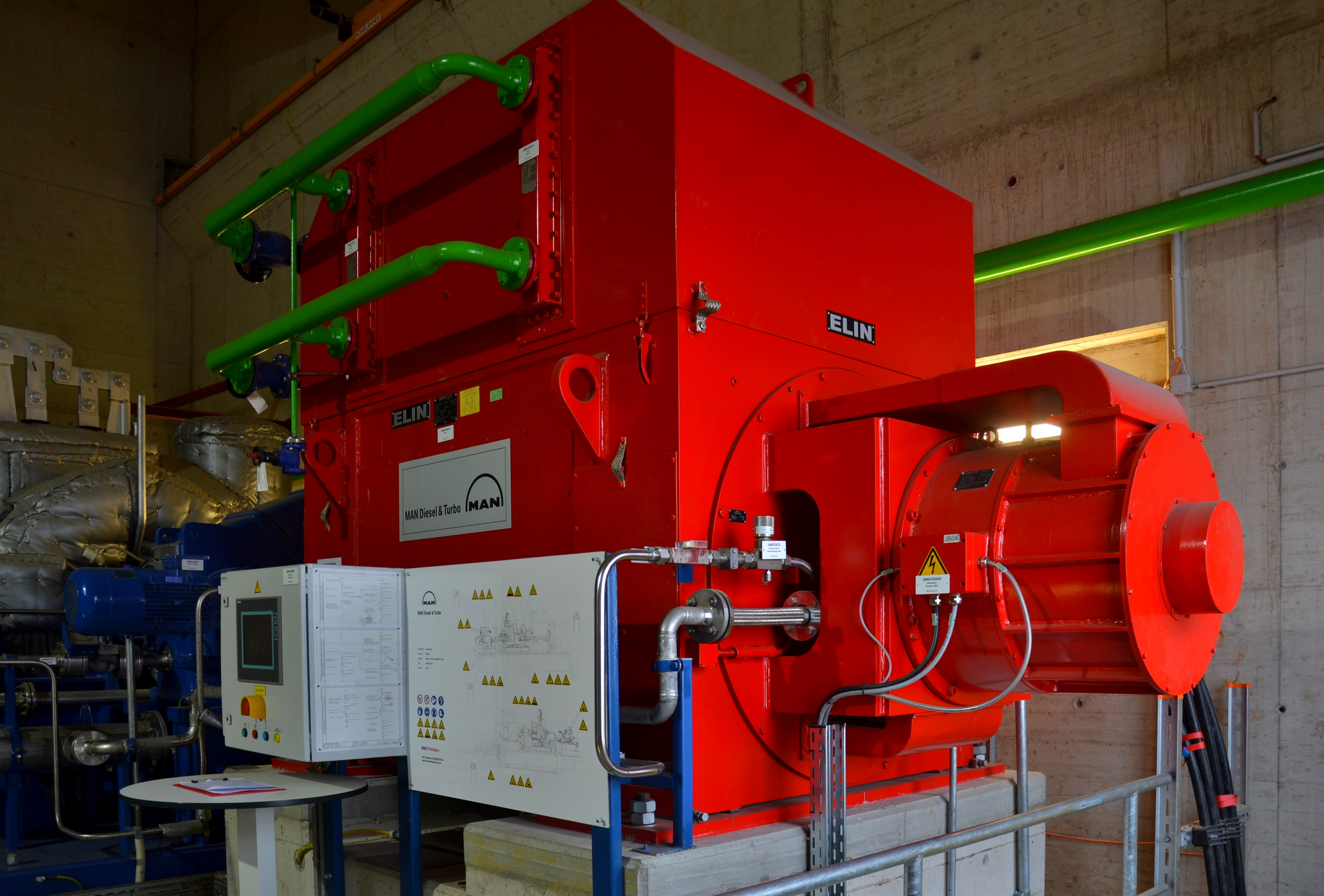 Steam Turbie Generaor, Biomass Power Plant Steyr, Constructer ELIN